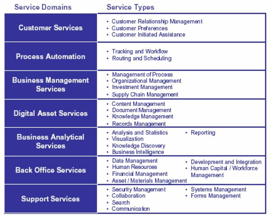 Service Component Reference Model The SRM is composed of seven Service Domains: Customer Services; Process Automation Services; Business Management Services; Digital Asset Services; Business Analytical Services; Back Office Services; and Support Services Each Service Domain is decomposed into Service Types. For example, the three Service Types associated with the Customer Services Domain are: Customer Preferences; Customer Relationship Management; and Customer Initiated Assistance. Each Service Type is decomposed further into components. For example, the four components within the Customer Preferences Service Type include: Personalization; Subscriptions; Alerts and Notifications; and Profile Management